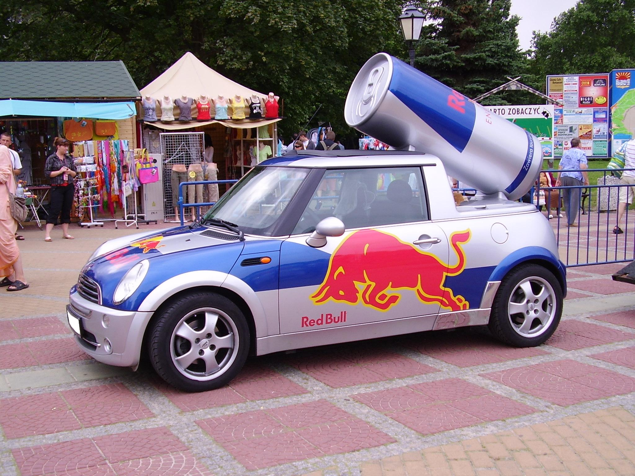 Mini Red Bull in Międzyzdroje (Poland)